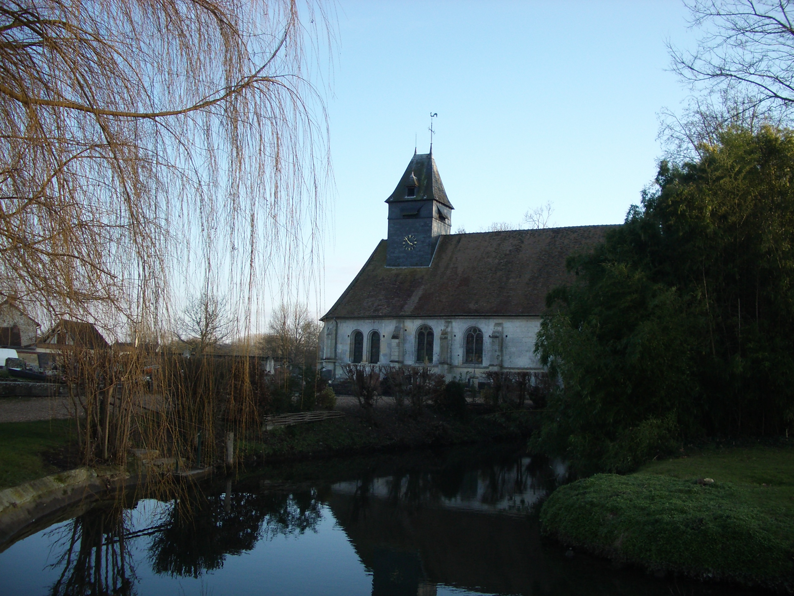 Croisy-sur-Eure (France) church